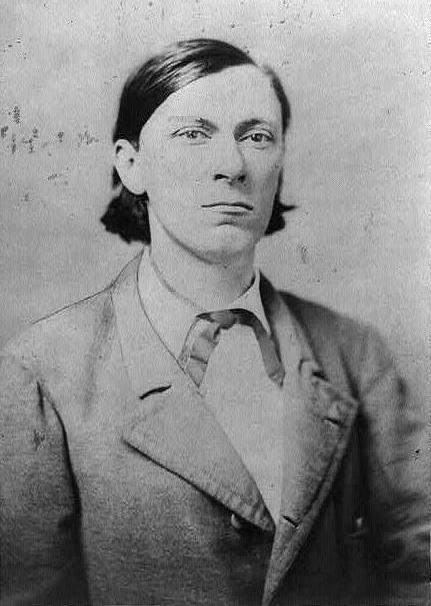 Roger Atkinson Pryor, 1828-1919